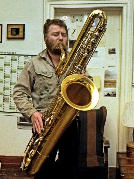 The Free Jazz saxophonist Peter Brötzmann on the 25.03.79 during an interview appointment at his apartment in Wuppertal, Germany.